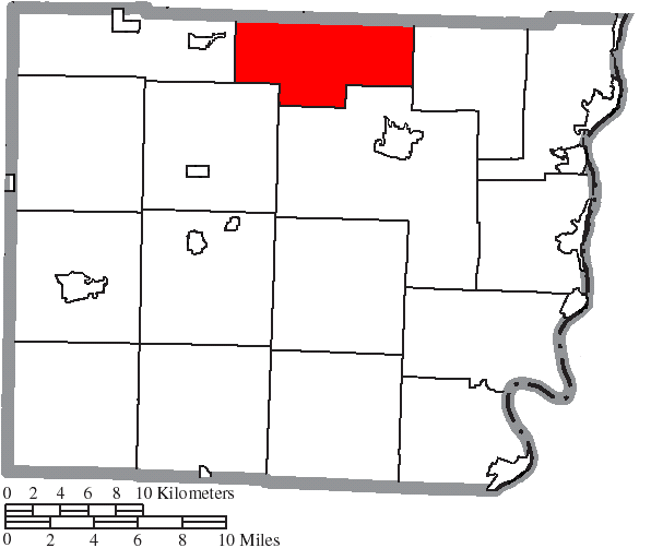 Map of the municipal and township boundaries of Belmont County, Ohio, United States, as of the 2000 census, with the location of Wheeling Township highlighted. Township borders are shown only in unincorporated areas in order to differentiate incorporated and unincorporated areas more clearly.